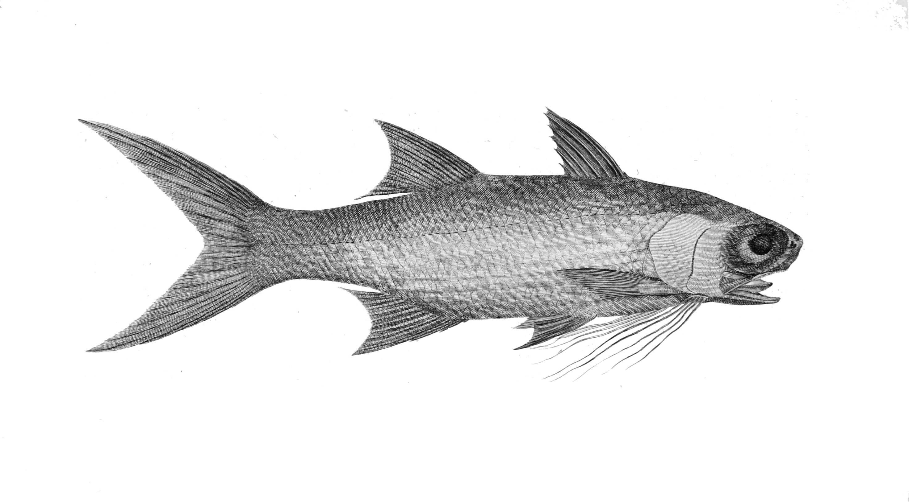 Polydactylus plebeius